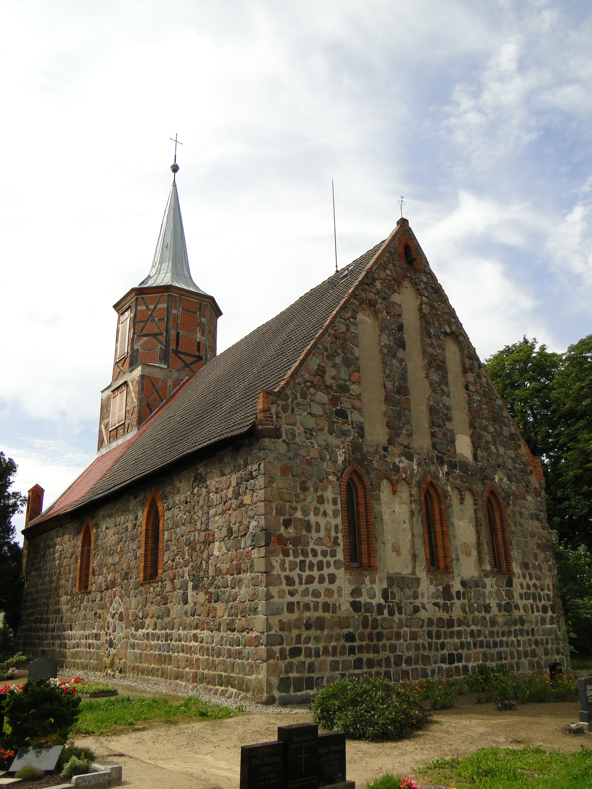 Church in Eichhorst, district Mecklenburg-Strelitz, Mecklenburg-Vorpommern, Germany